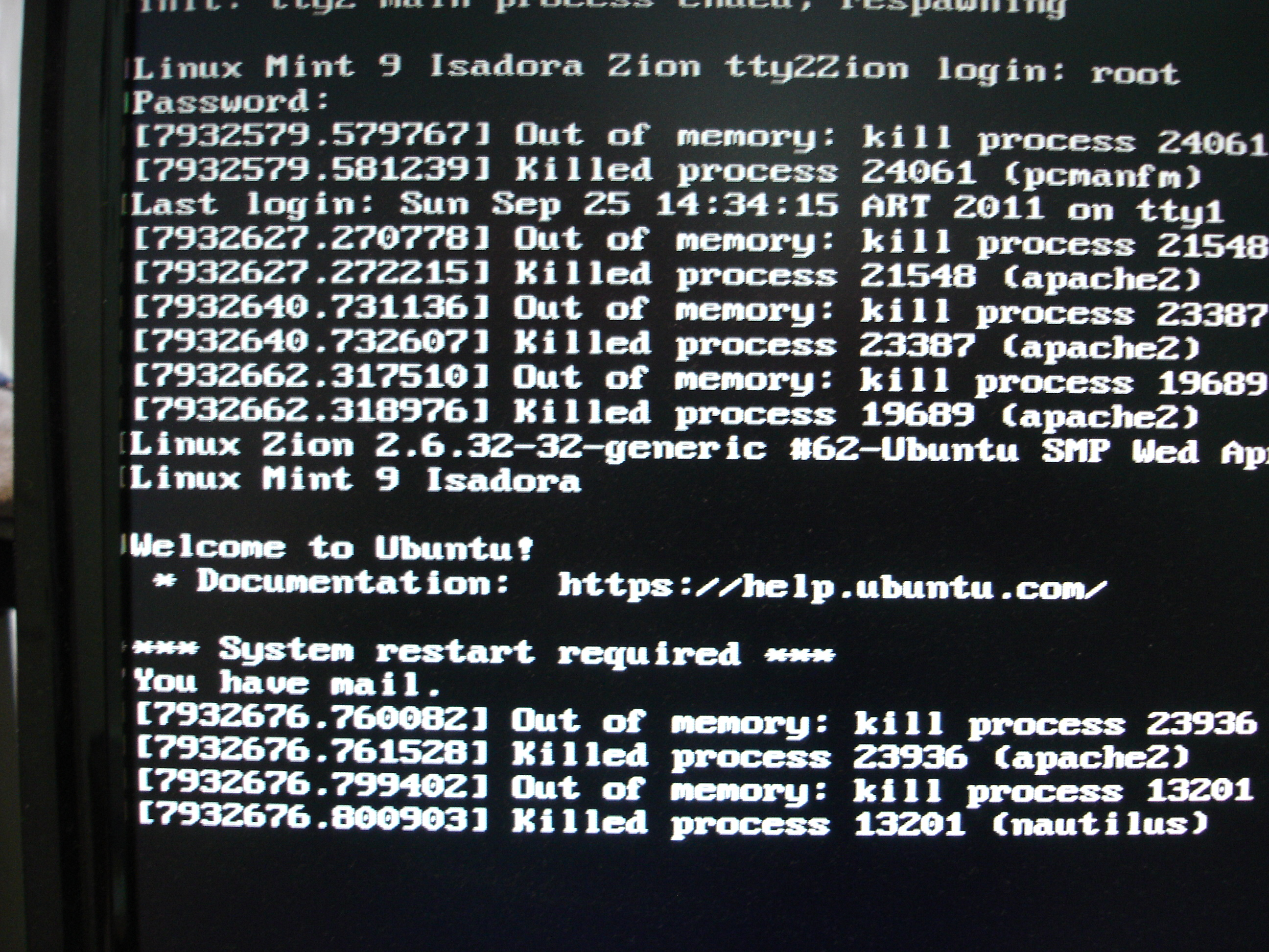 Real Out of Memory scenario in Linux. As you can see, Load was so high that kernell killed two processes before continue printing welcome screen.